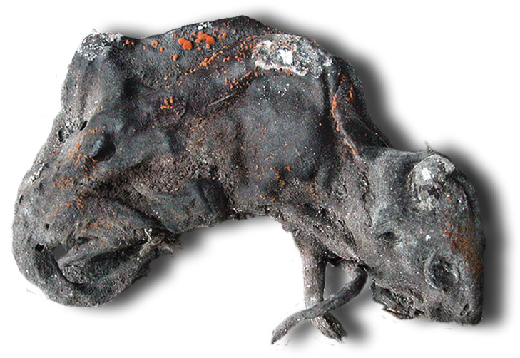 Dead rat (poisoned), and naturally mummified, with fungus